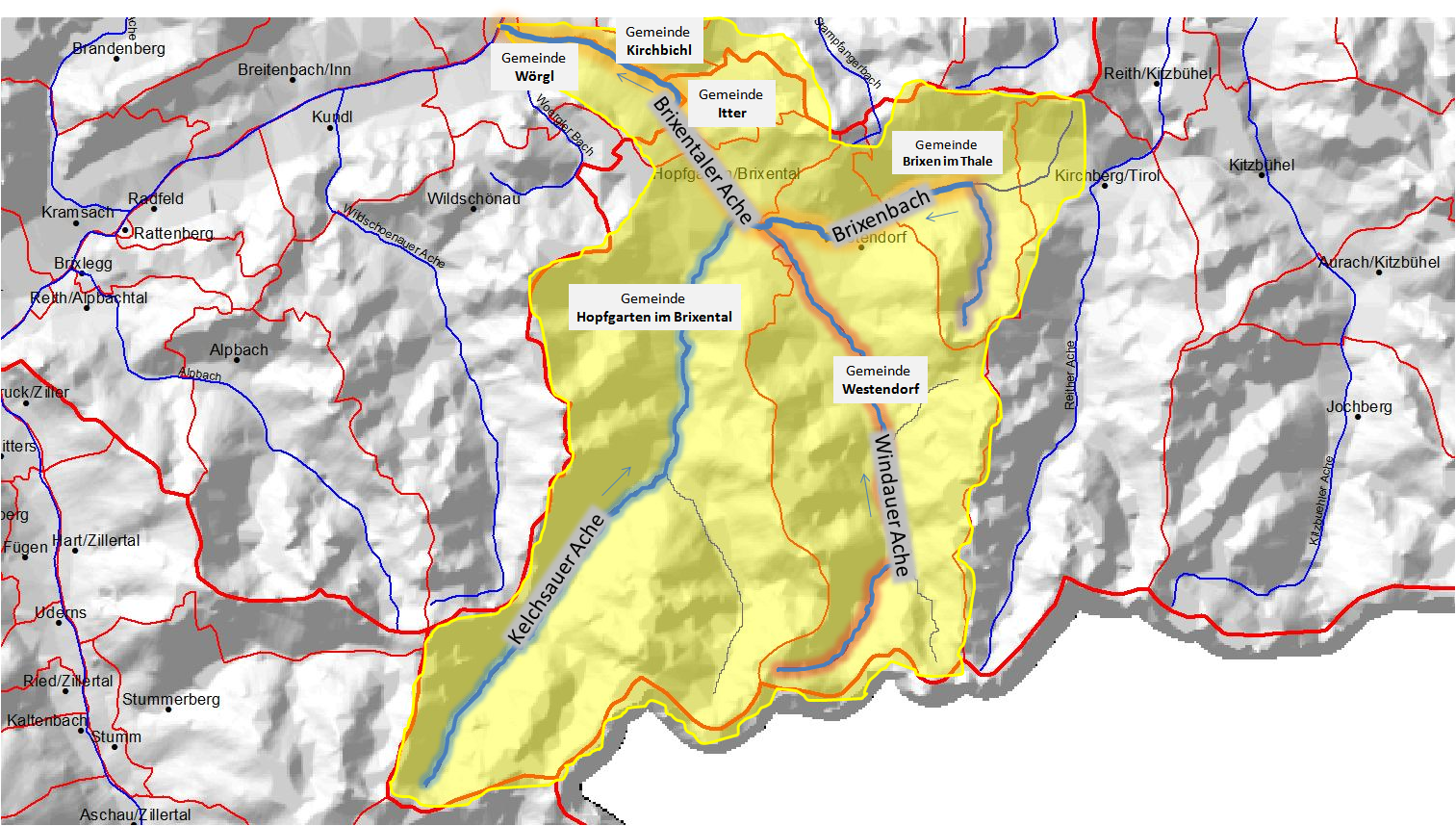 The course of the Brixentaler Ache and its catchment area (Tyrol, Austria)